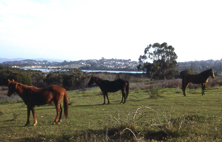 farm, australia